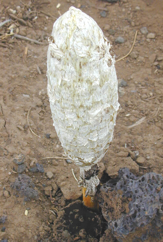 Podaxis pistillaris (False Shaggy Mane), an agaricoid gastromycete. Photographed June 3, 2004 by Eric Guinther (Marshman) near the Mauna Lani Hotel, South Kohala, Island of Hawai'i.